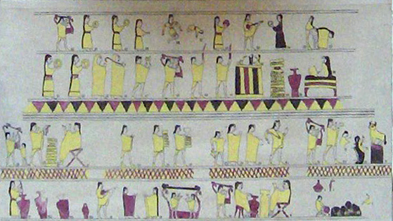 The Inandik vase :decorations on the vase with music and dance at a wedding (on the top right : pornographic image of a couple having intercourse); period of the Old Hittite Kingdom; about 1600 BC; Museum of Anatolian Civilizations, Ankara, Turkey